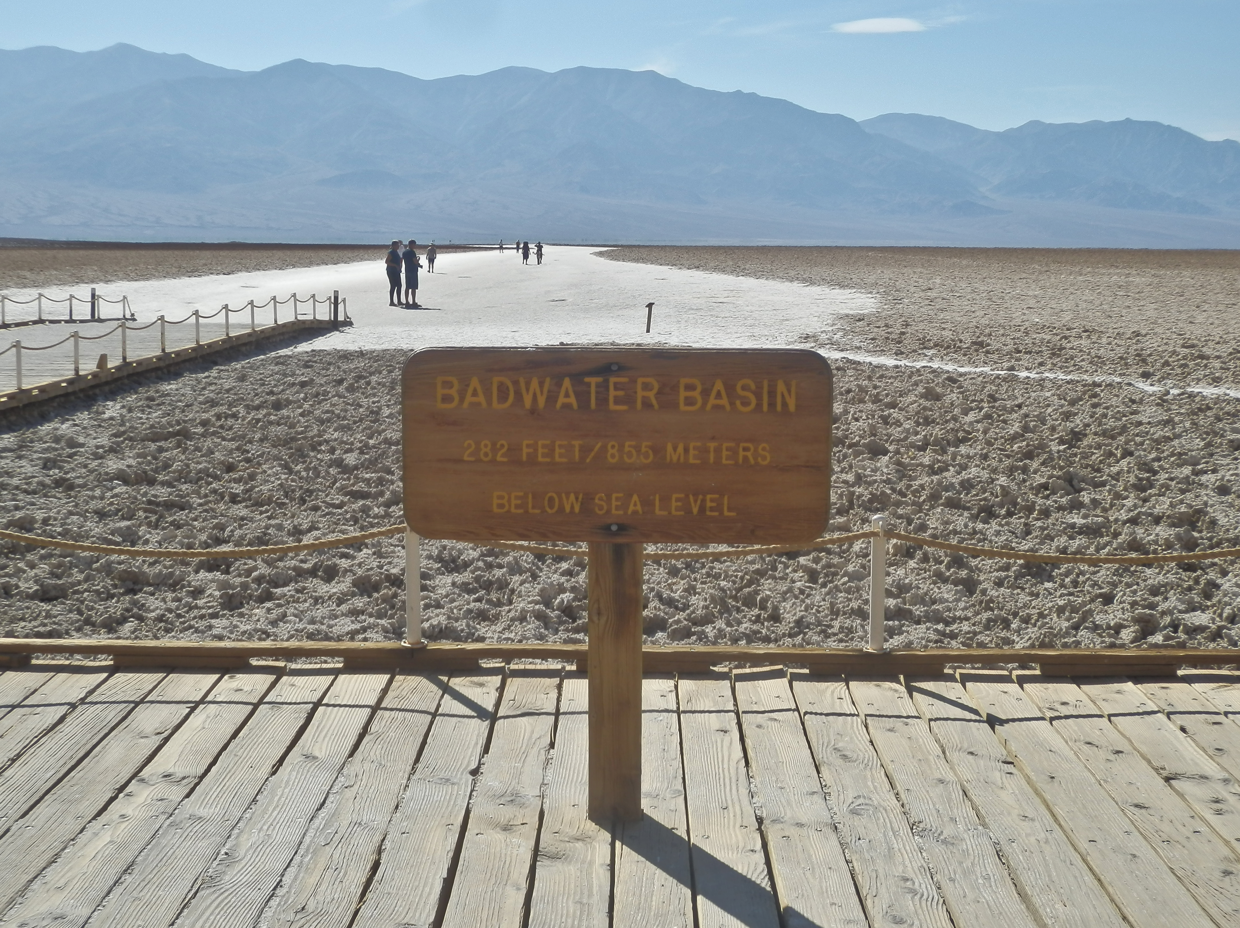 Badwater Basin Sign